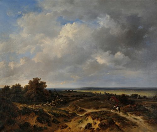 Landschap_in_de_omgeving_van_Doornik